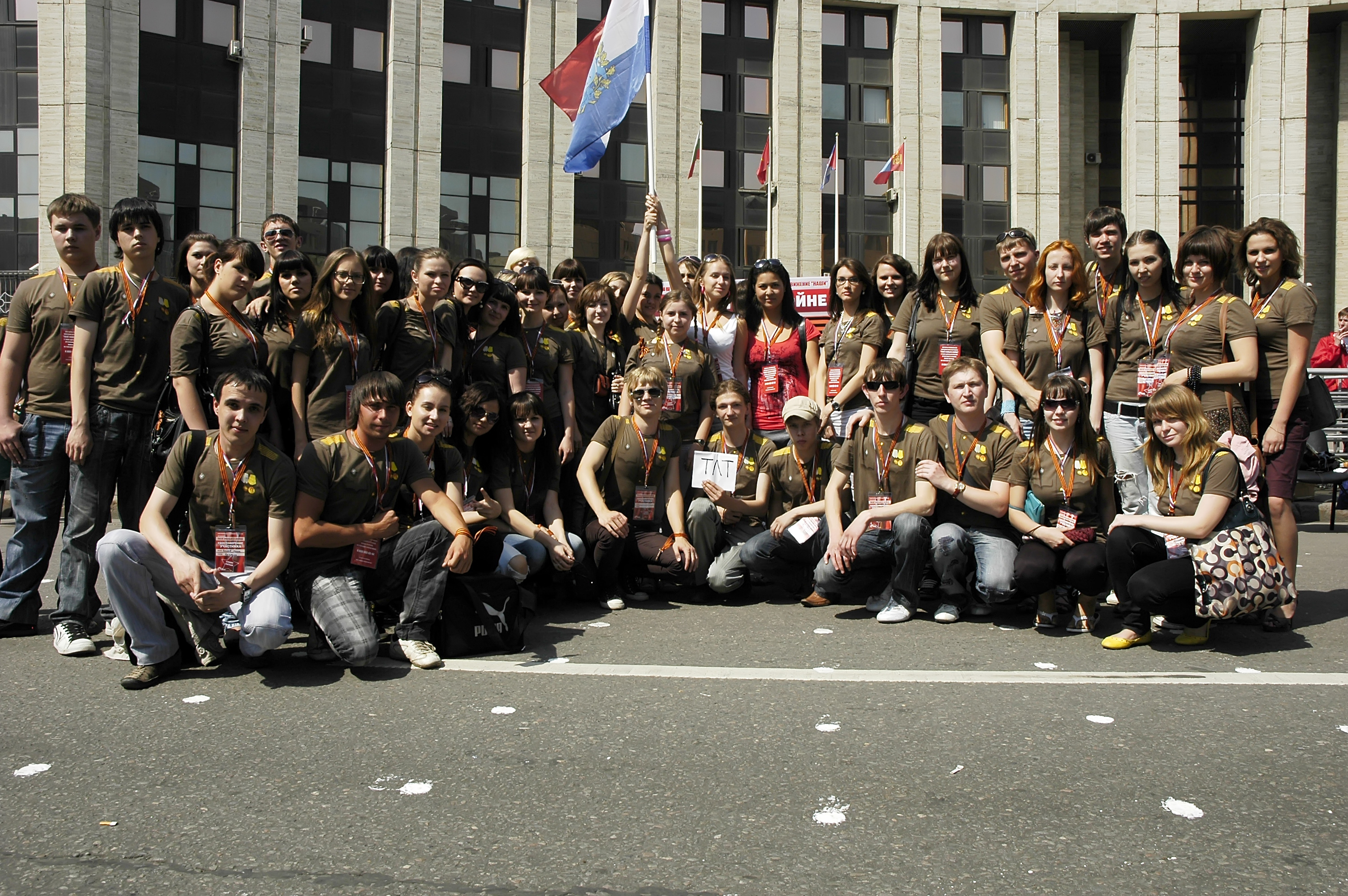 NASHA VICTORY - The Federal action of the youth movement of NASHI. Russia, Moscow. Delegation of city Tolyatti, Samara Region.